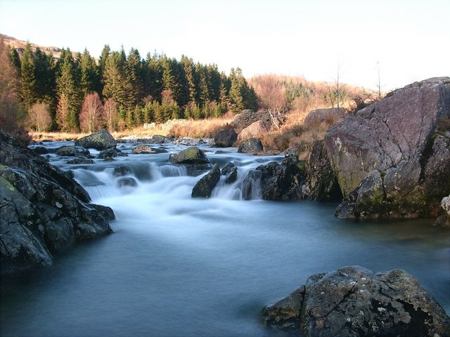 Waterfall on the River Duddon Taken just upstream of Birks Bridge